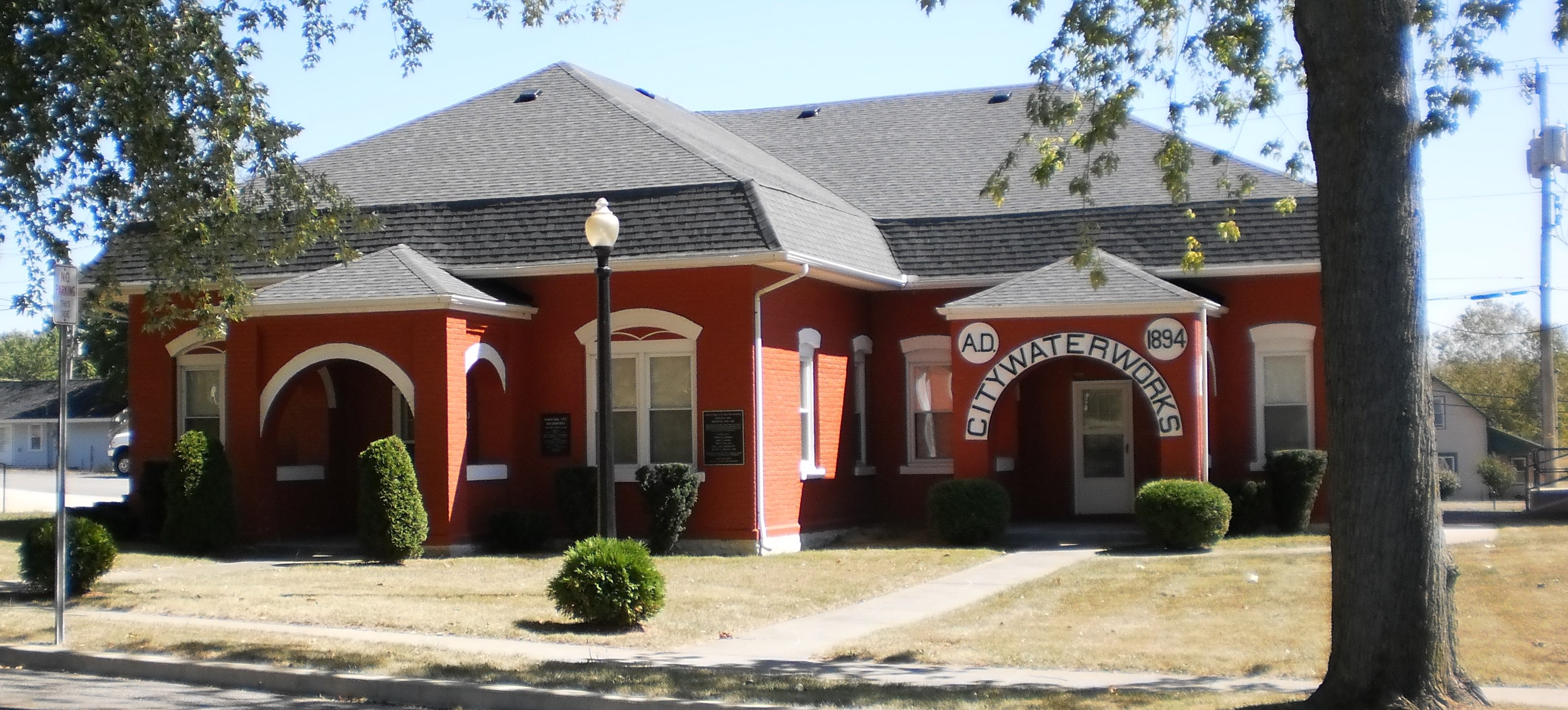 Hartford City, Indiana's historic water works building.